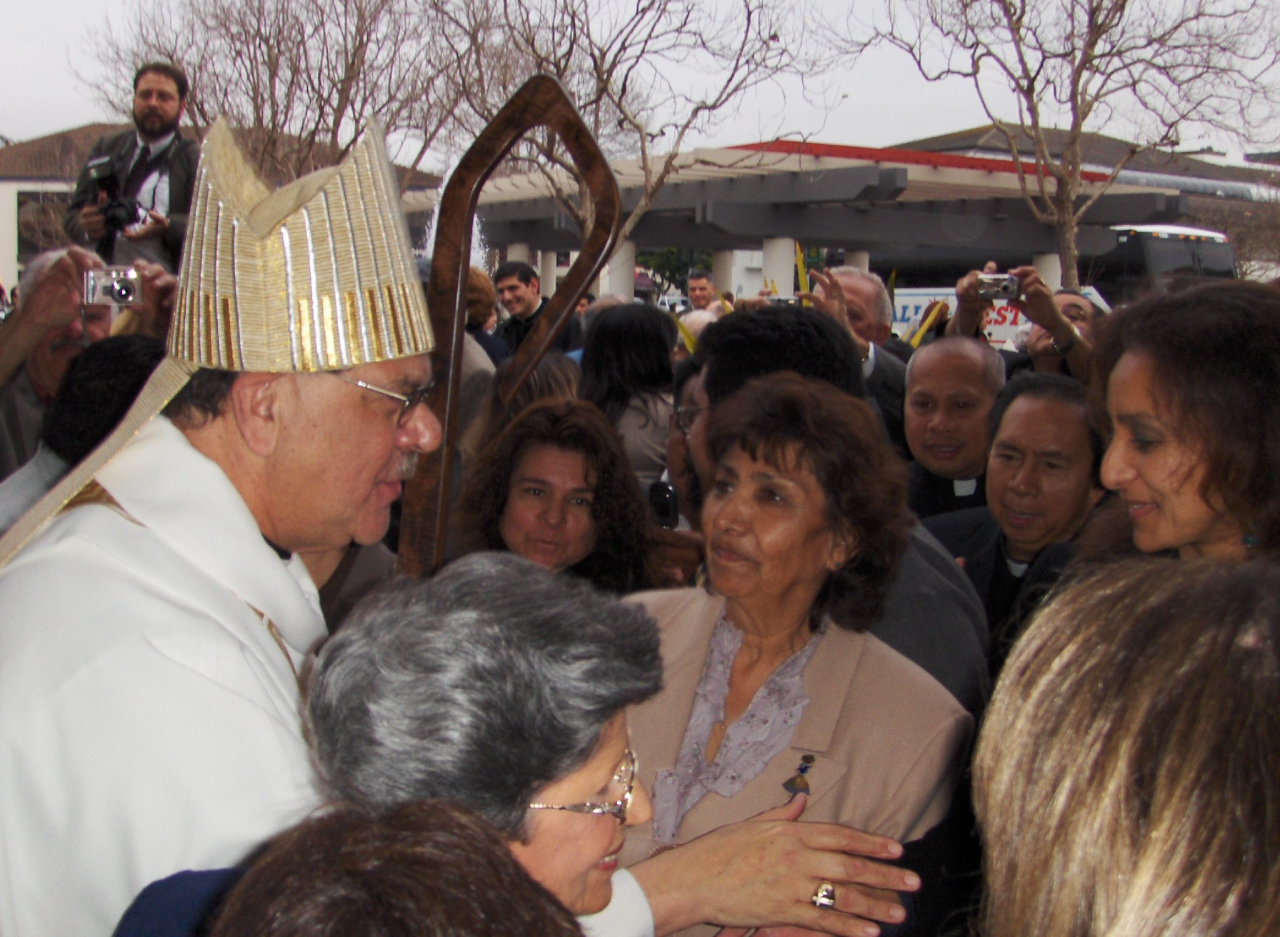 Bishop Richard Garcia greets guests after his ordination.